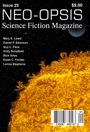 The cover is by Stephanie Ann Johanson and Karl Johanson, and shows dragon like stellar prominences, to illustrate the story, "When Every Song Reminds You of a Dead Universe."